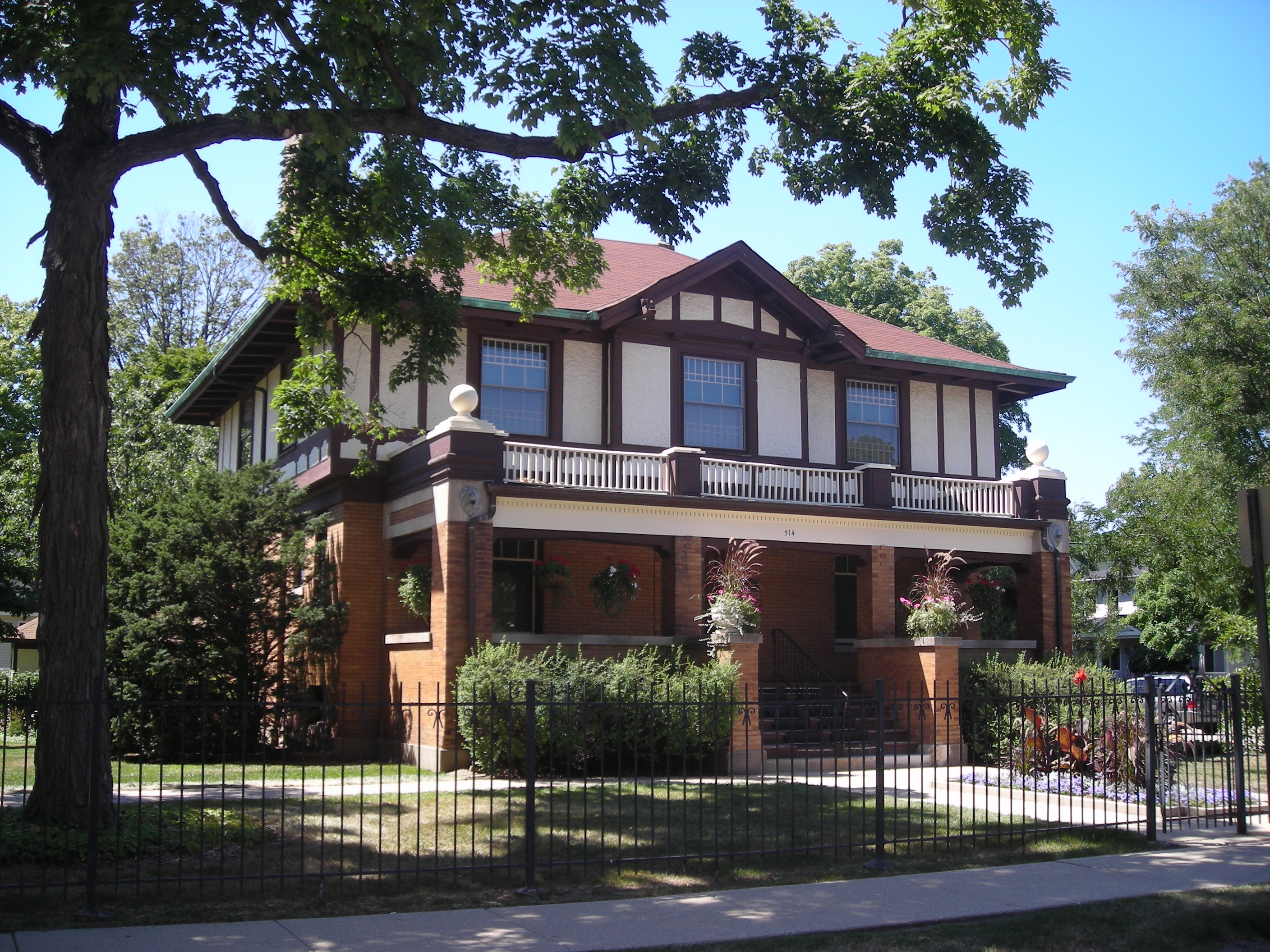 Banta, Nathaniel Moore House. Arlington Heights, IL. National Register of Historic Places 98000465